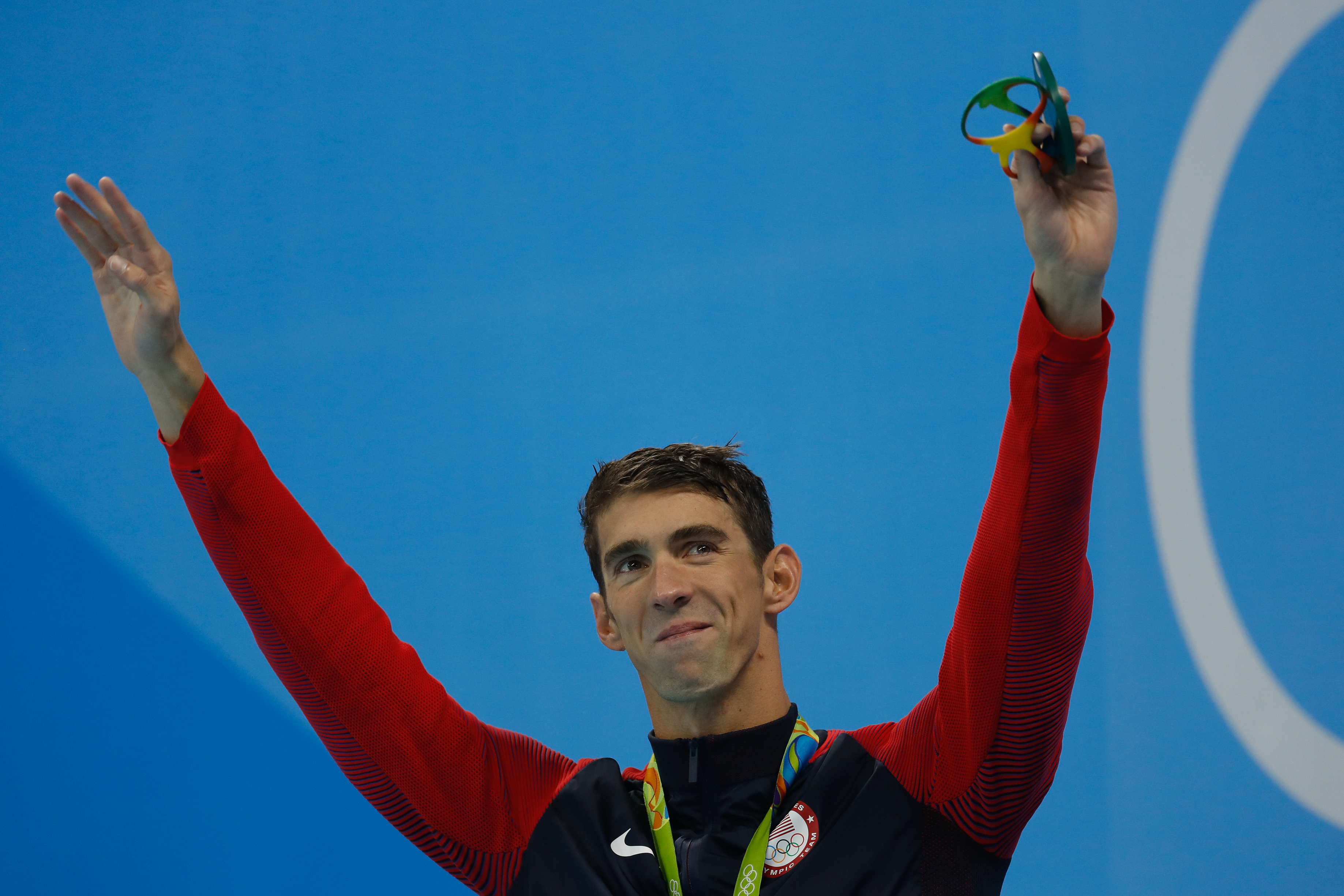 Rio de Janeiro - Michael Phelps, dos Estados Unidos, ganha sua 20ª medalha de ouro olímpica, nos 200m nado borboleta, nos Jogos Rio 2016. (Fernando Frazão/Agência Brasil)